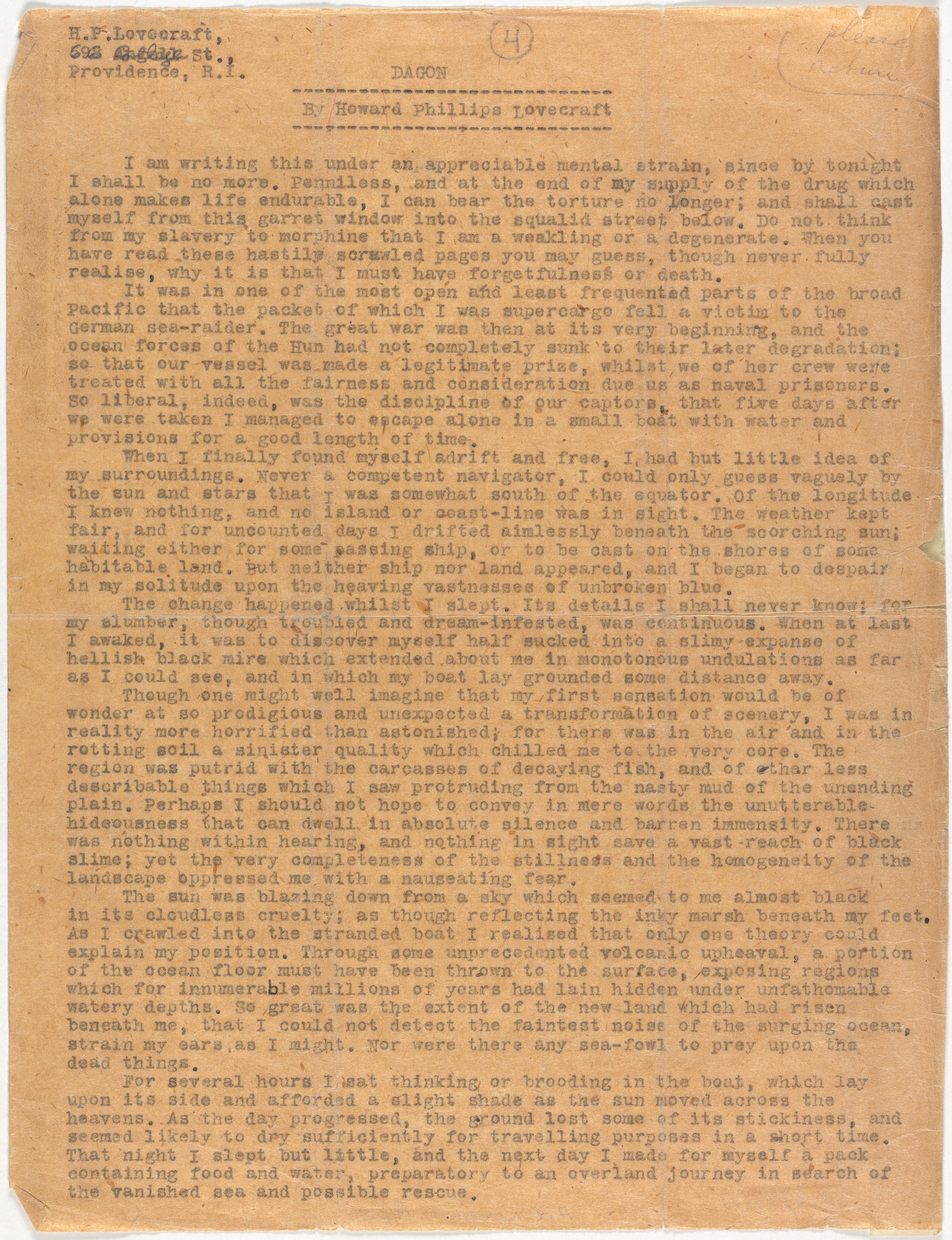 First page of the manuscript Dagon.